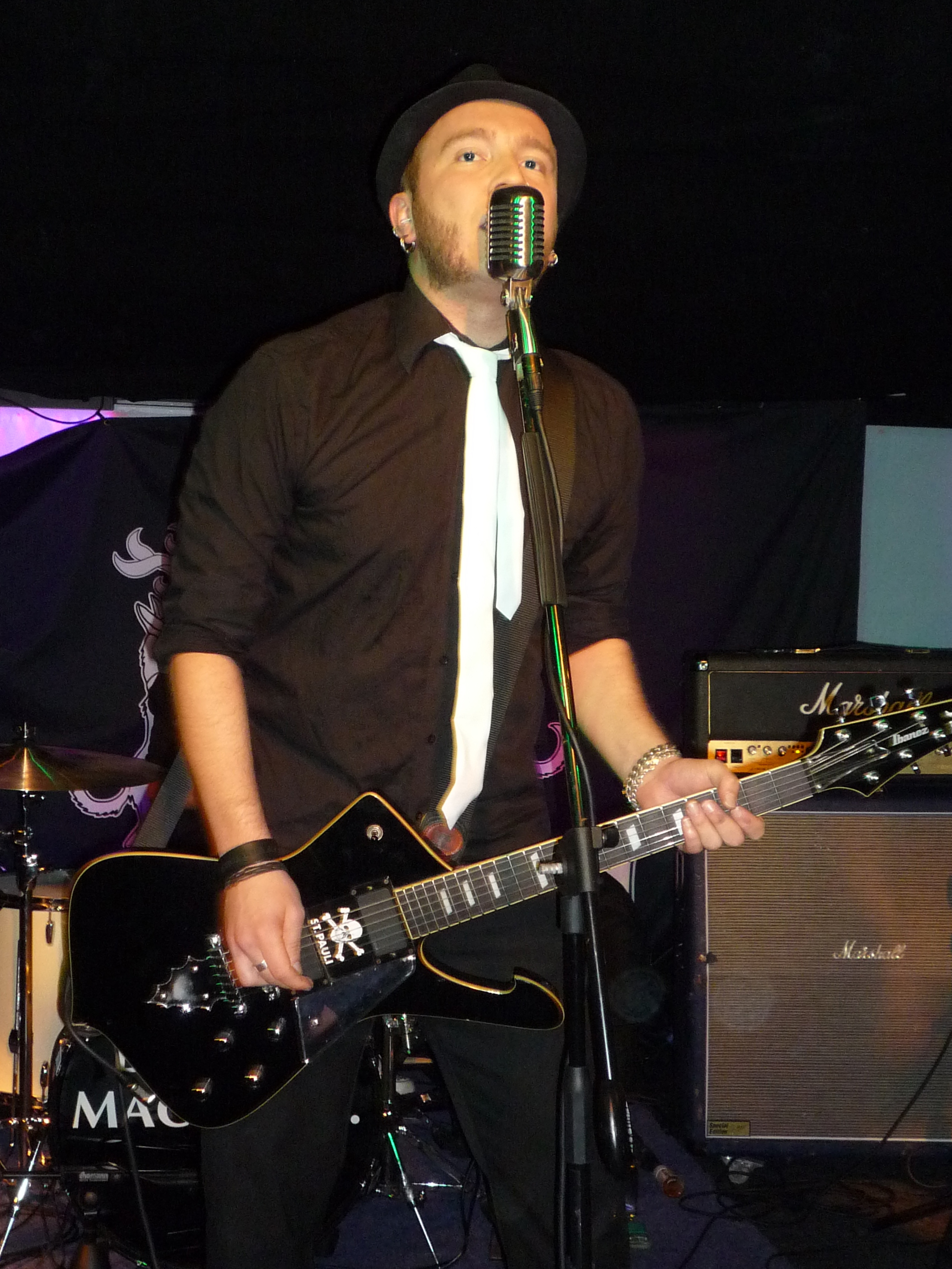 Chris Catalyst, playing with Eureka Machines at the Marr’s Bar in Worcester.